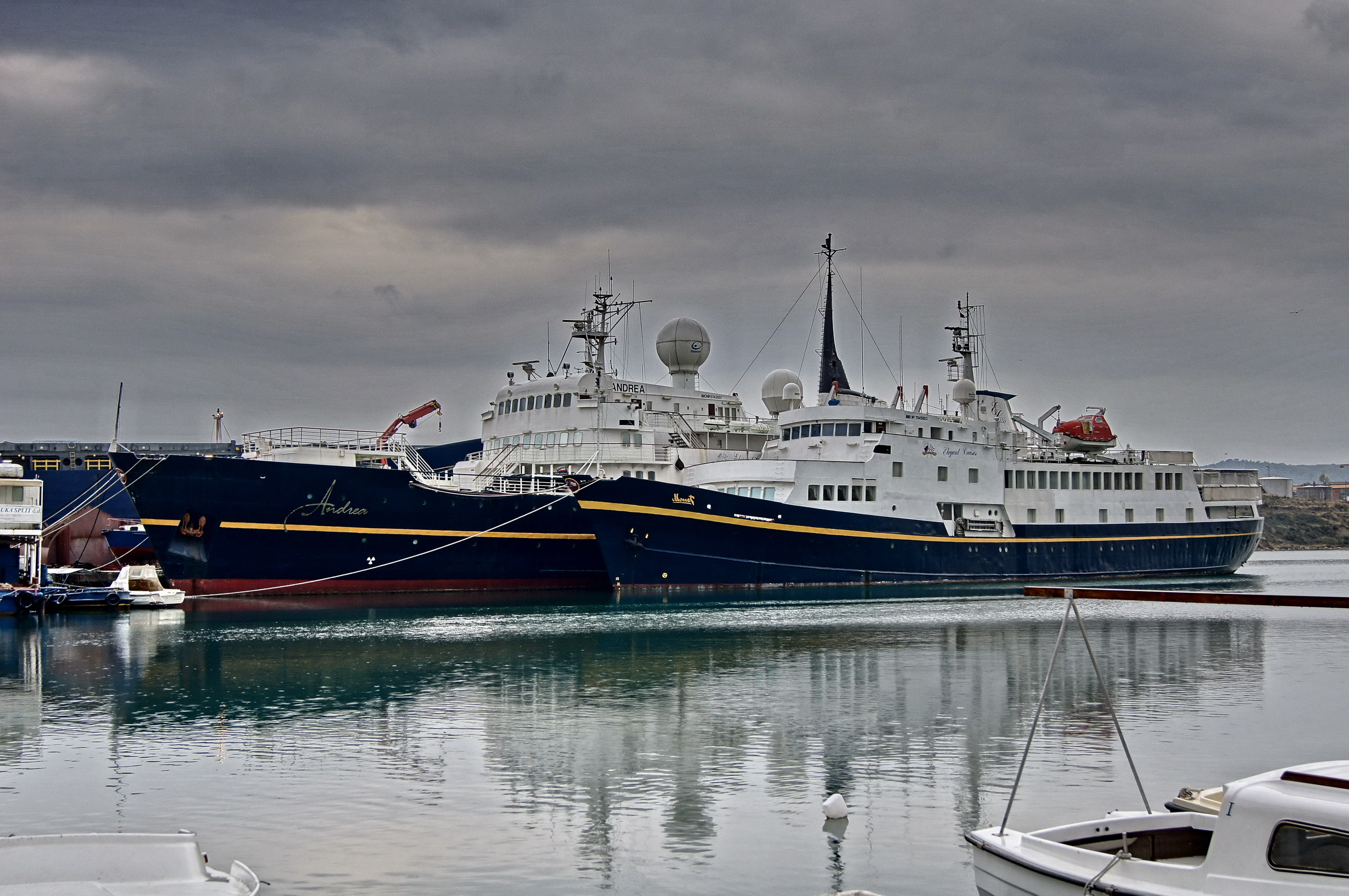 Andrea (ship, 1960) IMO 5142657; Monet (ship, 1970) IMO 7045803; in Split, 2011-10-20; Vranjic